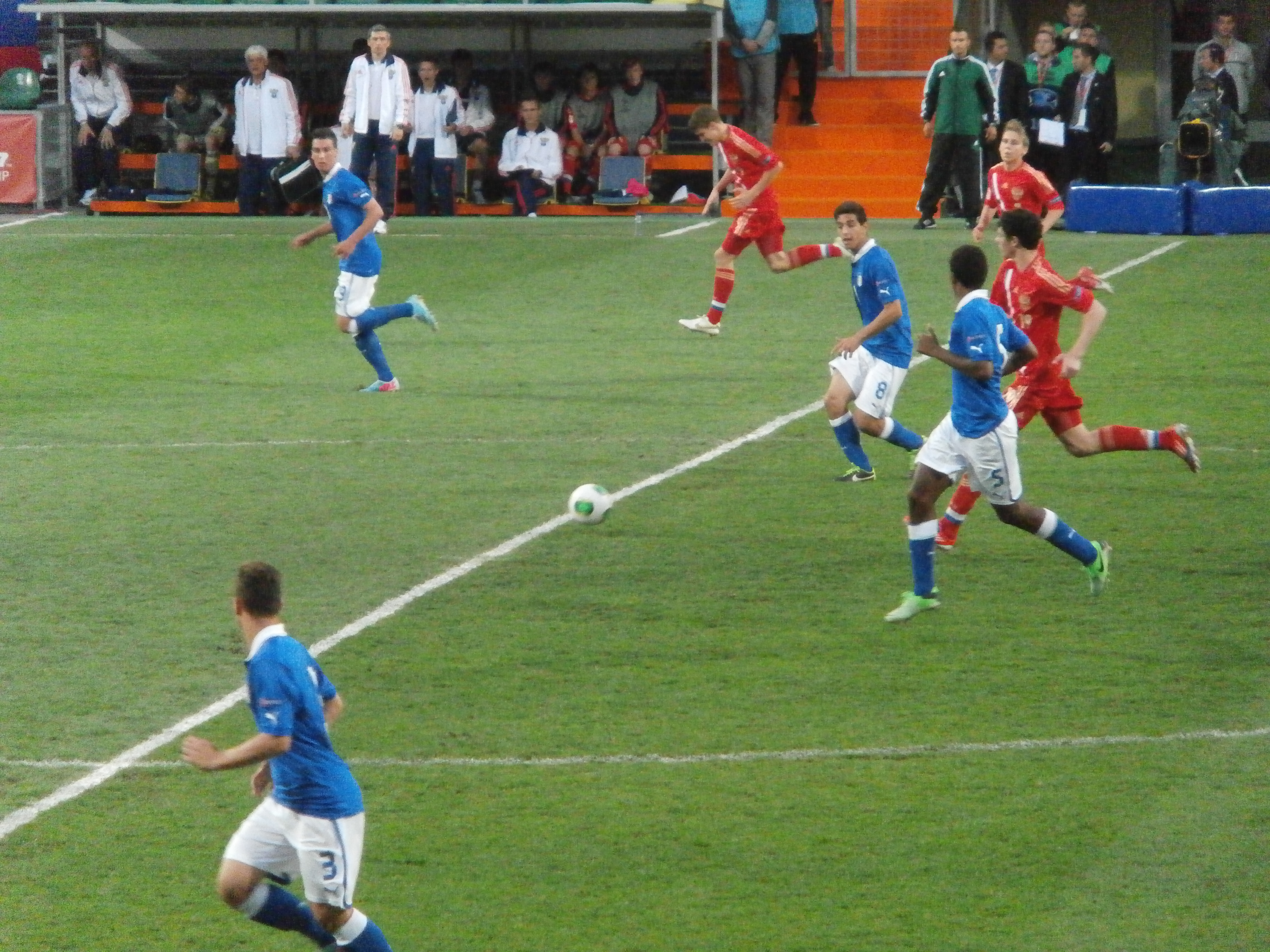 2013 UEFA European Under-17 Football Championship - Final match